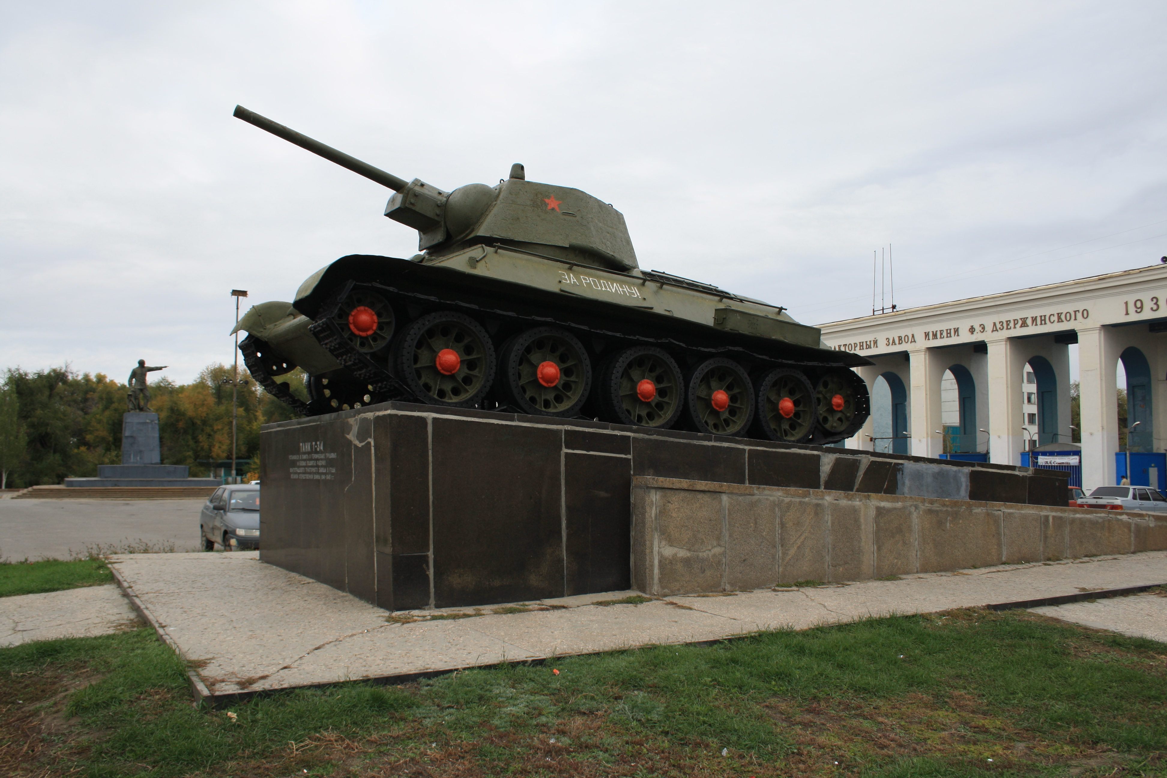 T-34 near the Volgograd Tractor Factory.